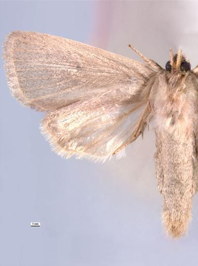 Sesemia grisescens female, ventral view Bubia, Morobe Province, PNG, Feb. 1981. G. R. Young ex Sugarcane. Det. G.R. Young 1981